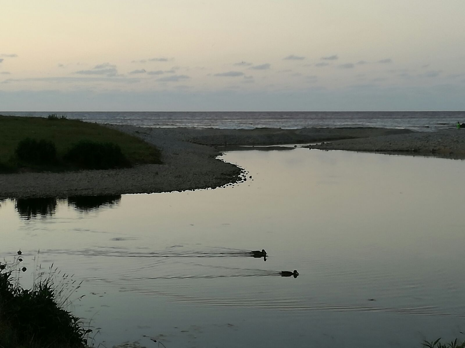 Esqueiro's river mouth